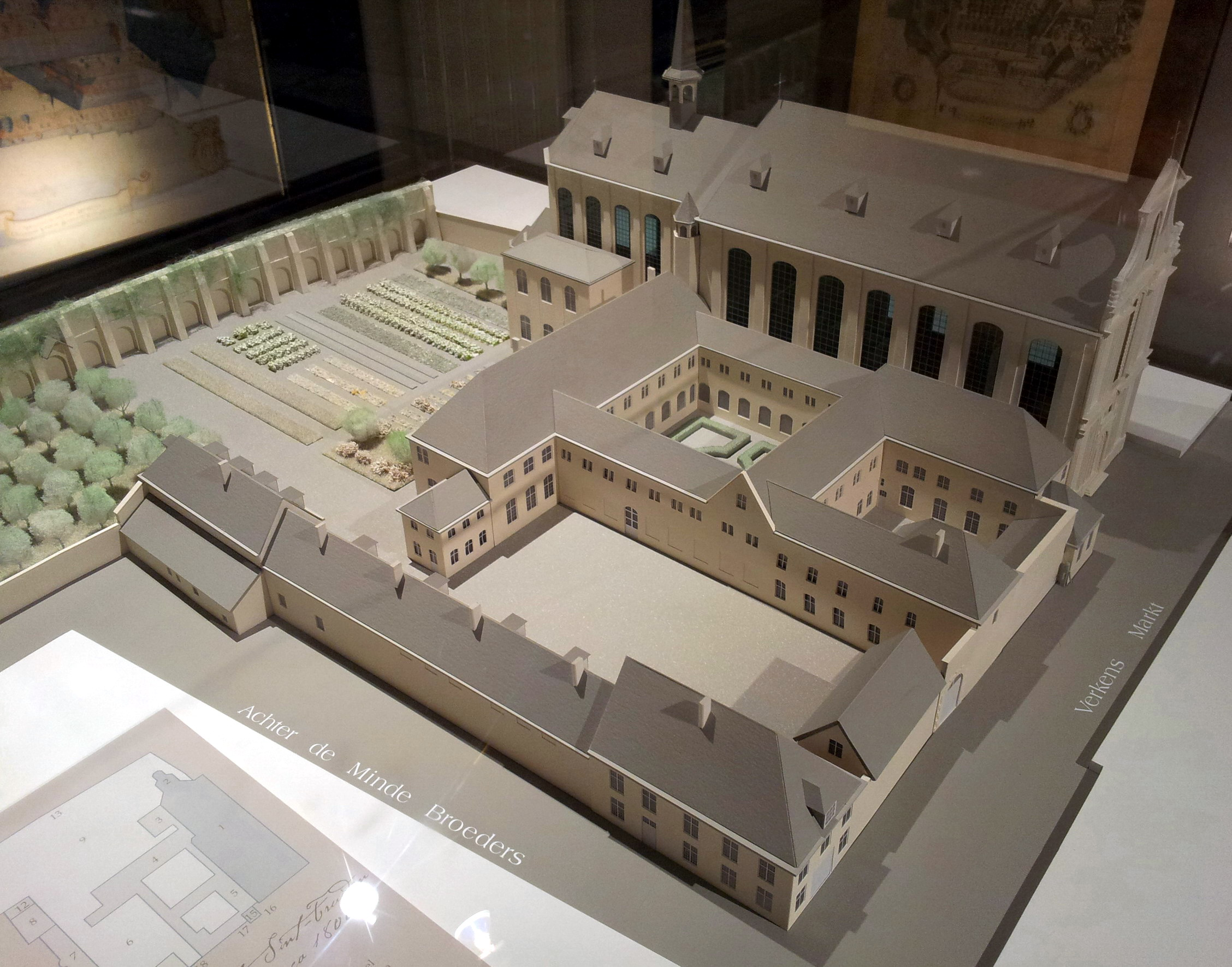 Museum Vlaamse Minderbroeders, Sint-Truiden, Belgium. Scale model of the Franciscan monastery in Sint-Truiden in the collection of the Museum of Flemish Minorites.